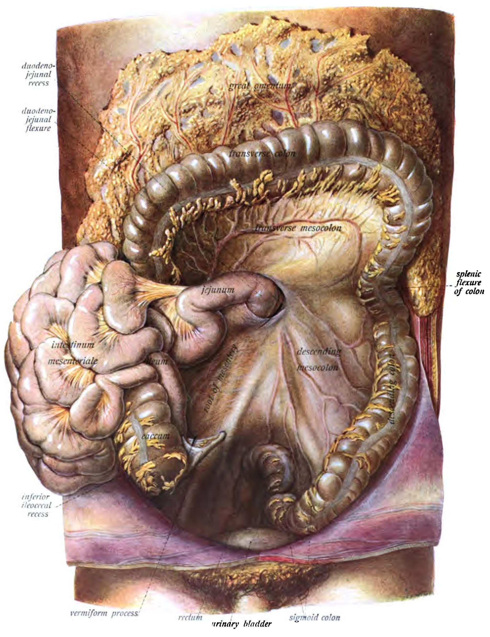 An anatomical illustration from the 1906 edition of Sobotta's Atlas and Text-book of Human Anatomy with English Terminology